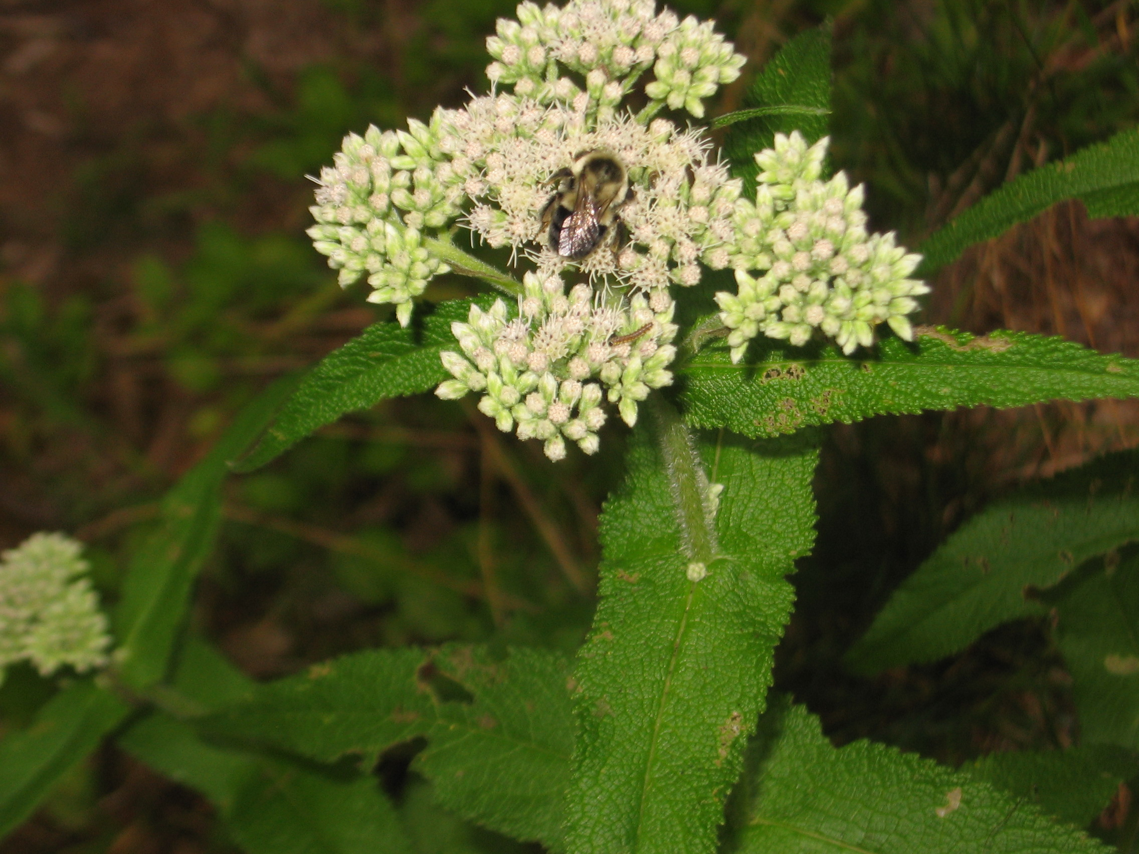 Photograph of a boneset plant, Eupatorium perfoliatum, taken on Aug 22, 2007 in Northfield, New Hampshire. An unidentified bee and a caterpillar are on the blossoms. I didn't notice the caterpillar while taking the picture. The bee was quite sluggish (the air temperature was around 60°F).